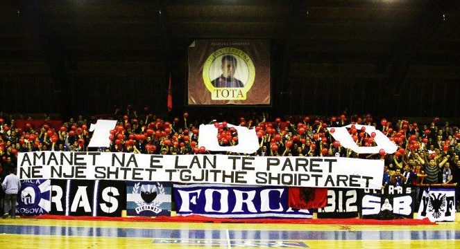 Vushtrri